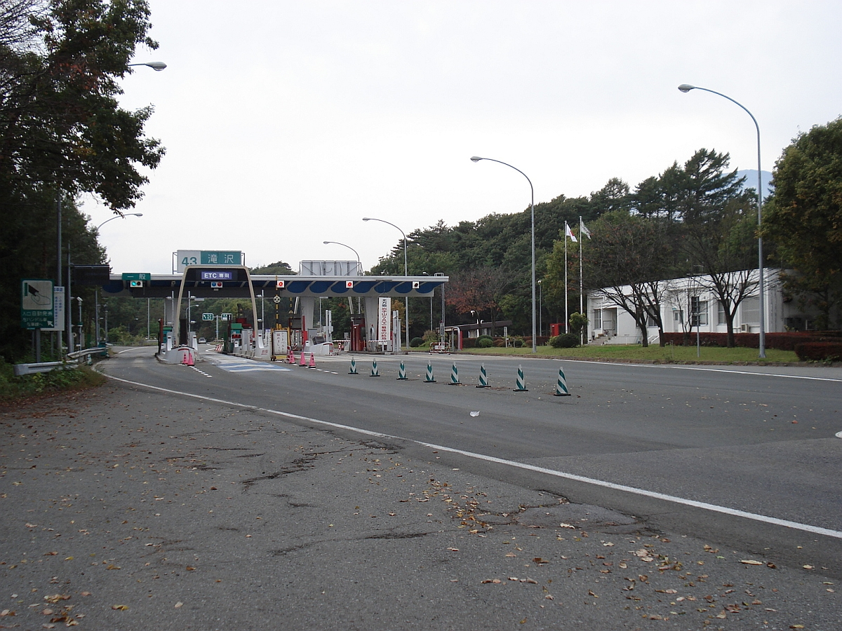 This Interchange, Takizawa Interchange, is on Tohoku Expressway, in Takizawa village, Iwate Prefecture, Japan.